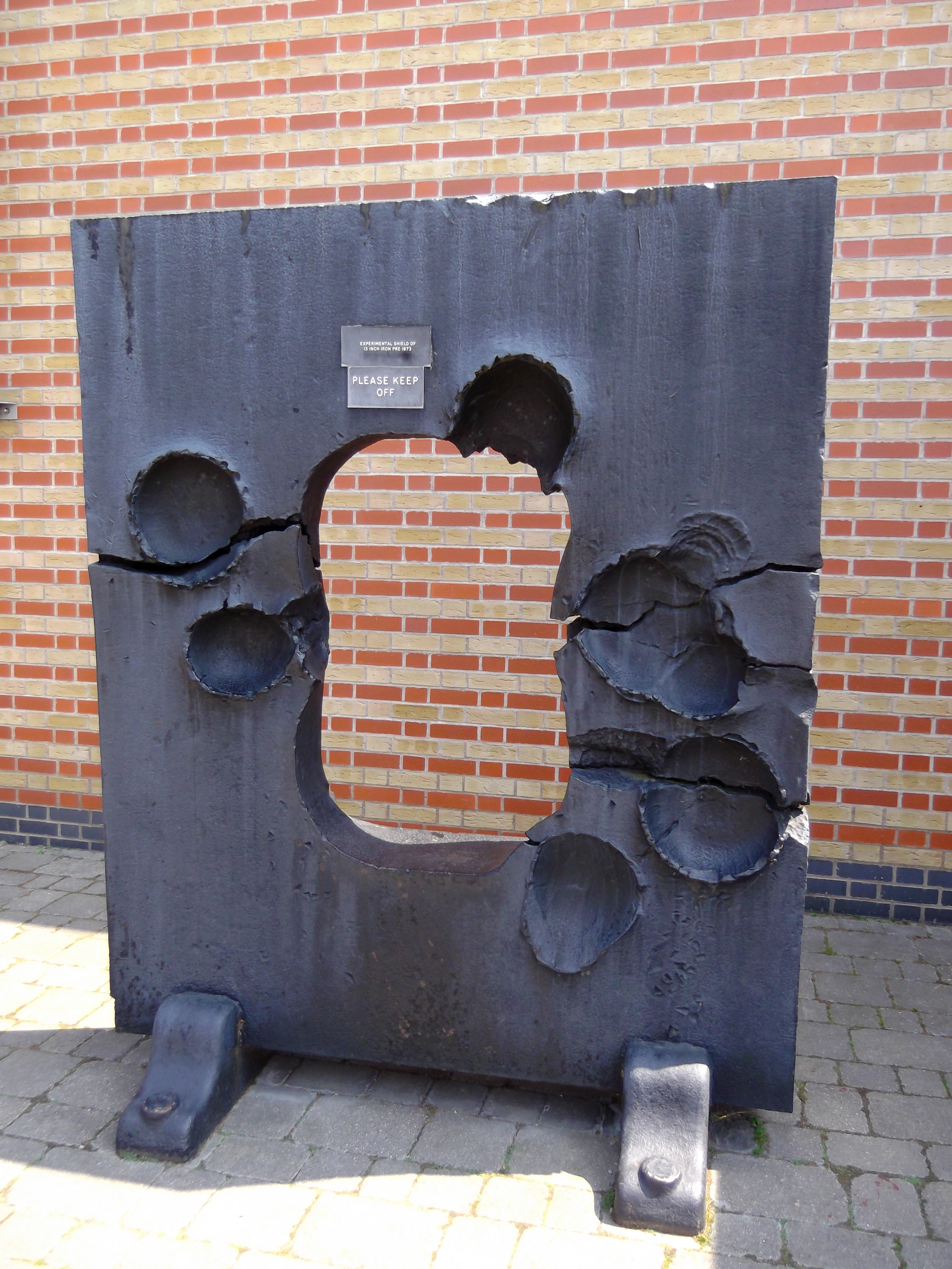 Royal Artillery Museum Woolwich London 099